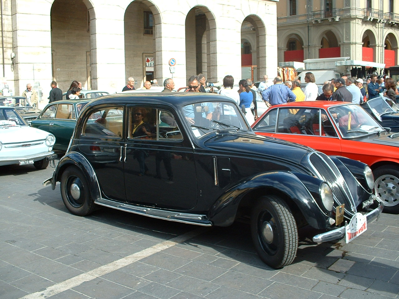 Fiat 1500B, 1938